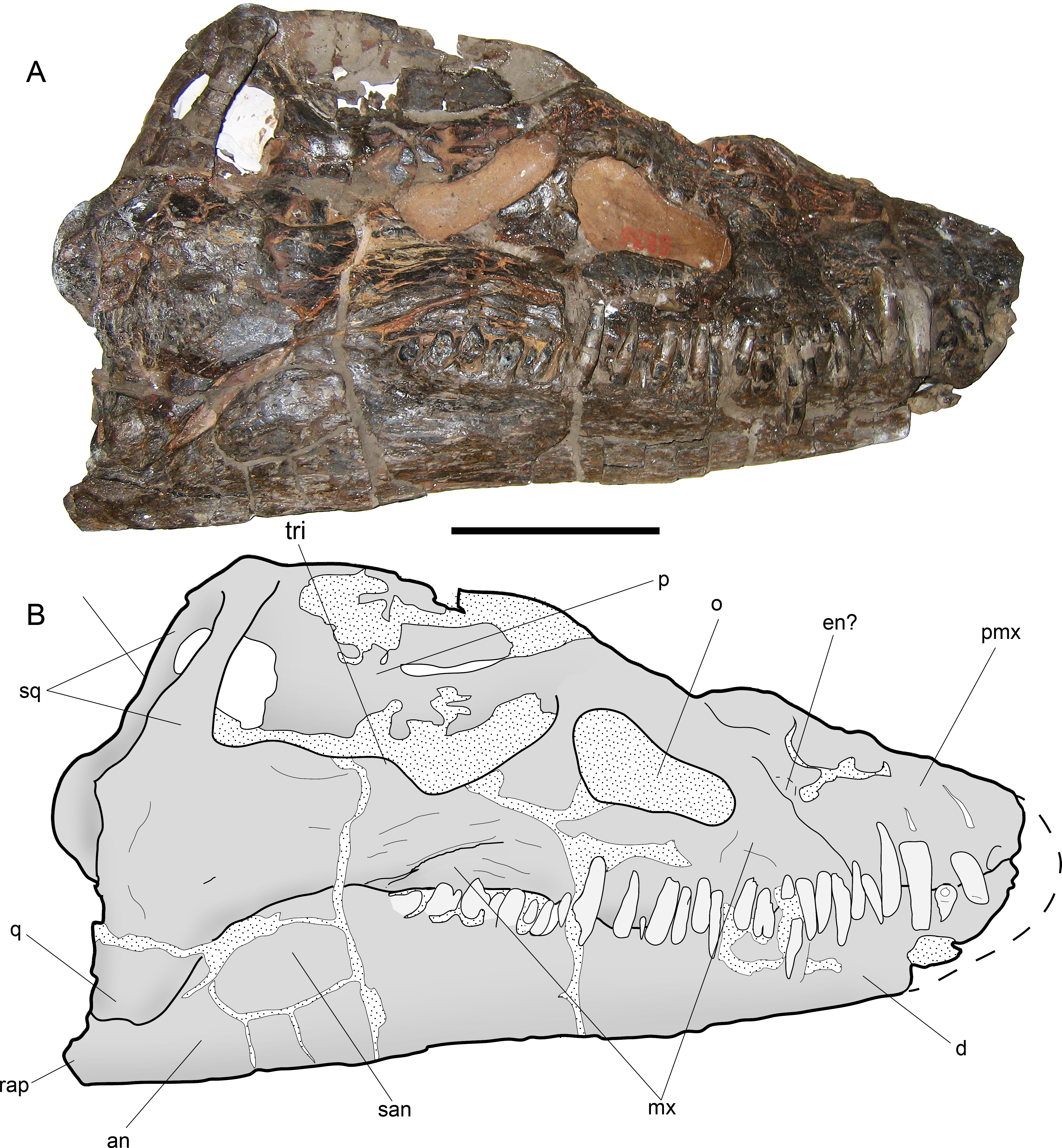 Styxosaurus browni (Welles, 1952) (AMNH 5835). Skull. (A) right lateral view. (B) interpretation of the same. Anatomical abbreviations: an, angular; d, dentario; en?, external naris?; mx, maxillar; o, orbit; p, parietal; pmx, premaxillar; q, quadrate; rap, retroarticular process; san, surangular; sq, squamosal; tri, temporal ridge. Scale bar equals 10 cm.